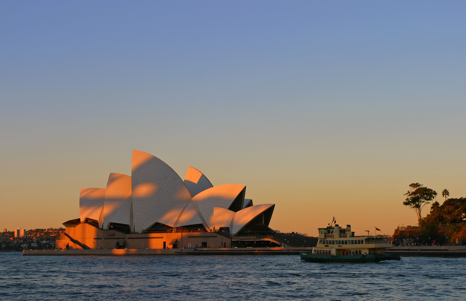 The Sydney Opera House at sunset, with the last rays of sunlight shadowed by the Sydney Harbour Bridge. A Sydney ferry is taking passengers across the harbour and is about to cross the Opera House. Taken in May 2004 with a Canon 10D and 17-40mm f/4L lens.